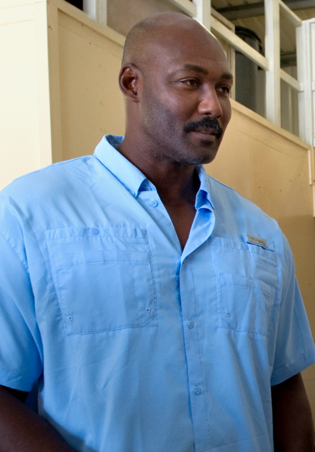 110801-N-TT977-278 NBA Legend Karl Malone visits with Soldiers assigned to Bagram Mortuary Affairs, Afghanistan, August 1, 2011. Malone, along with magician David Blaine are on a five-day USO tour with Adm. Mike Mullen, chairman of the Joint Chiefs of Staff visiting troops in Afghanistan and Iraq. DoD photo by Mass Communication Specialist 1st Class Chad J. McNeeley/Released)